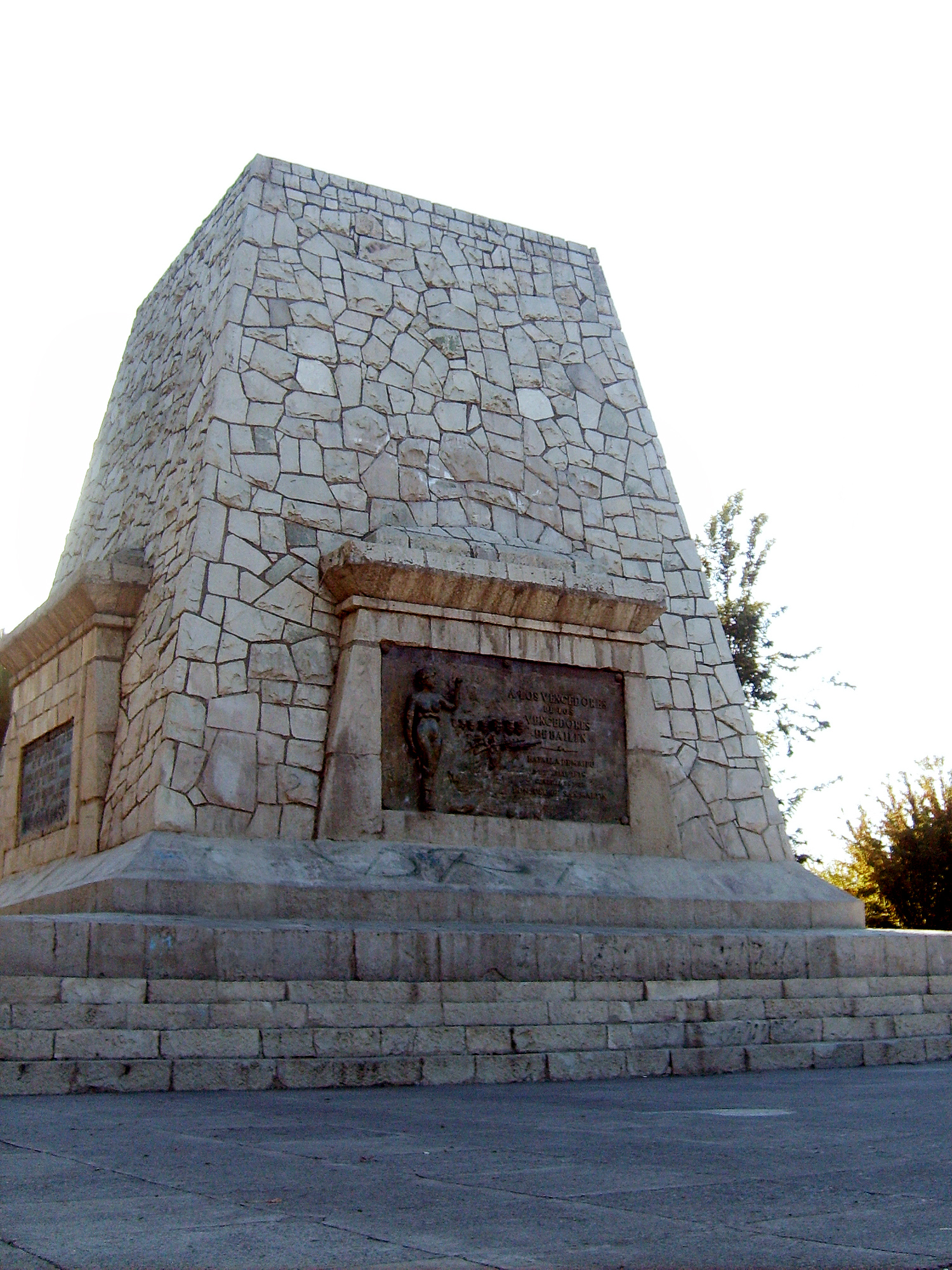 Located in Pajaritos avenue, between Maipú and Ordóñez streets. This monument was constructed in memory of the soldiers patriots of the Army of the Andes, who conquered the Spanish Army, who had defeated the powerful Napoleon in Bailén's battle. It is necessary to emphasize that the General and Liberating Don Bernardo O'Higgins Riquelme was the one who designed and gave order to construct this monument.